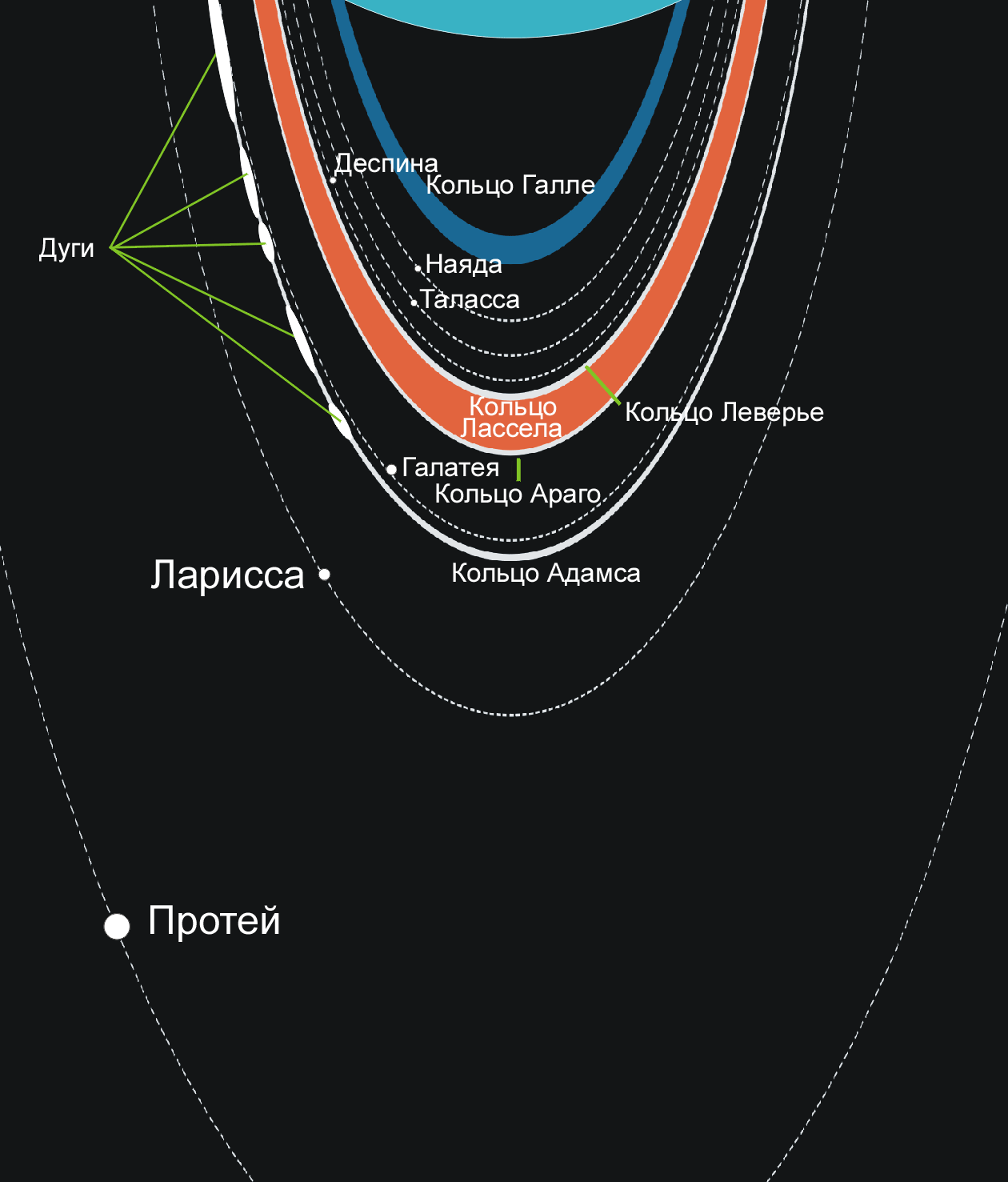 The scheme of the ring-moon system of the planet Neptune. The proportions are real.